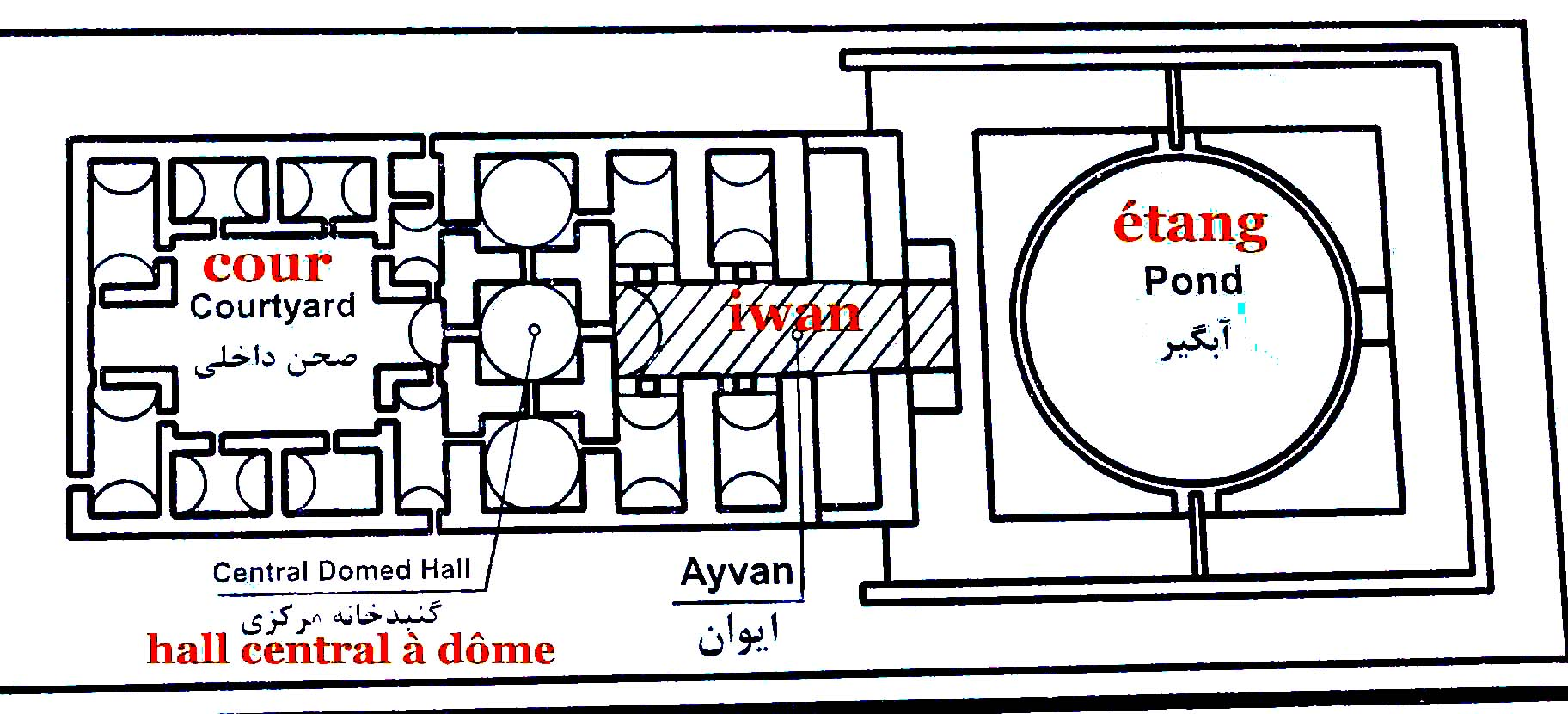 plan of the palace of Ardeshir I